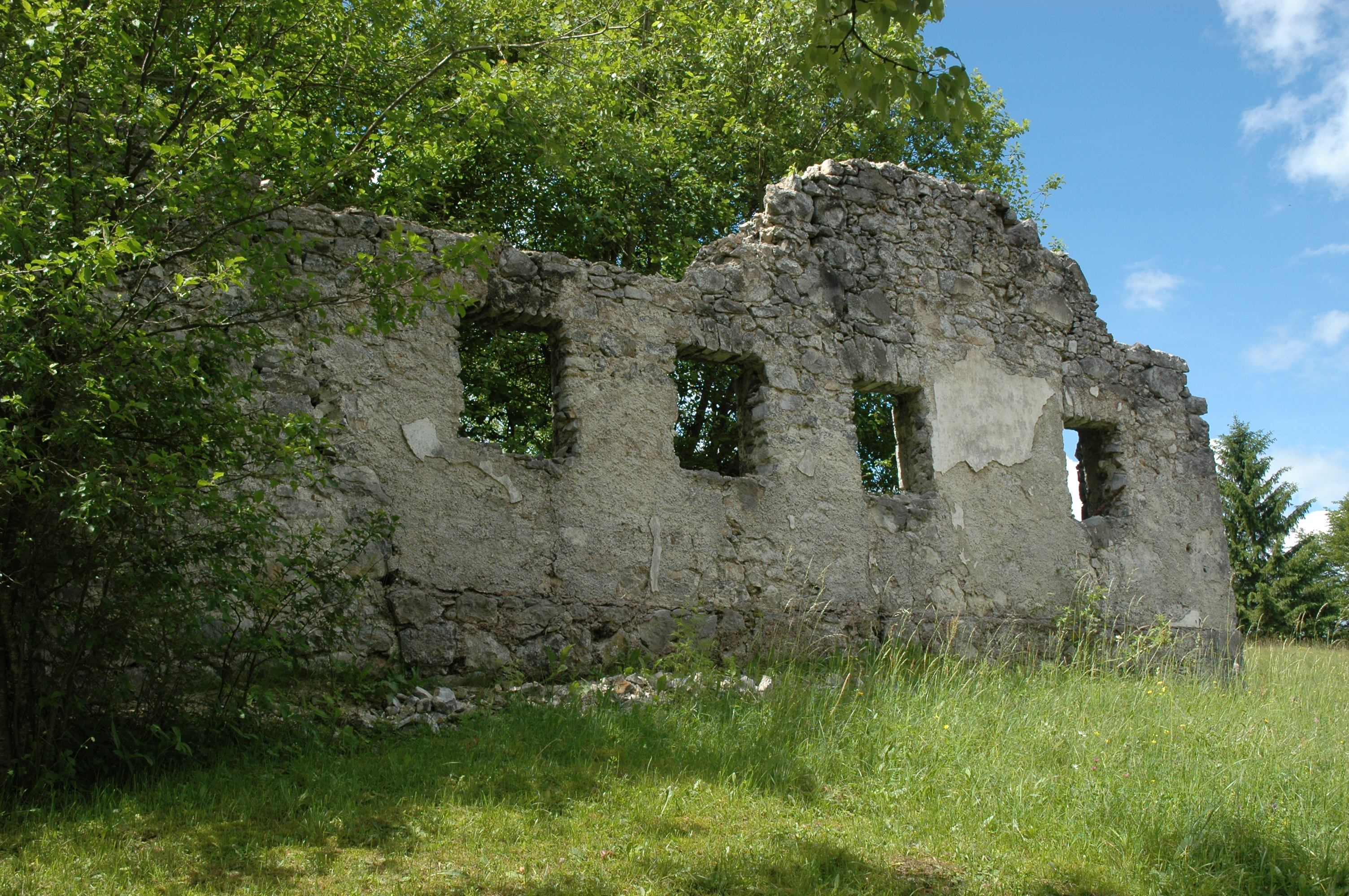 Ruins of one of the oldest houses in Babno Polje, Slovenia